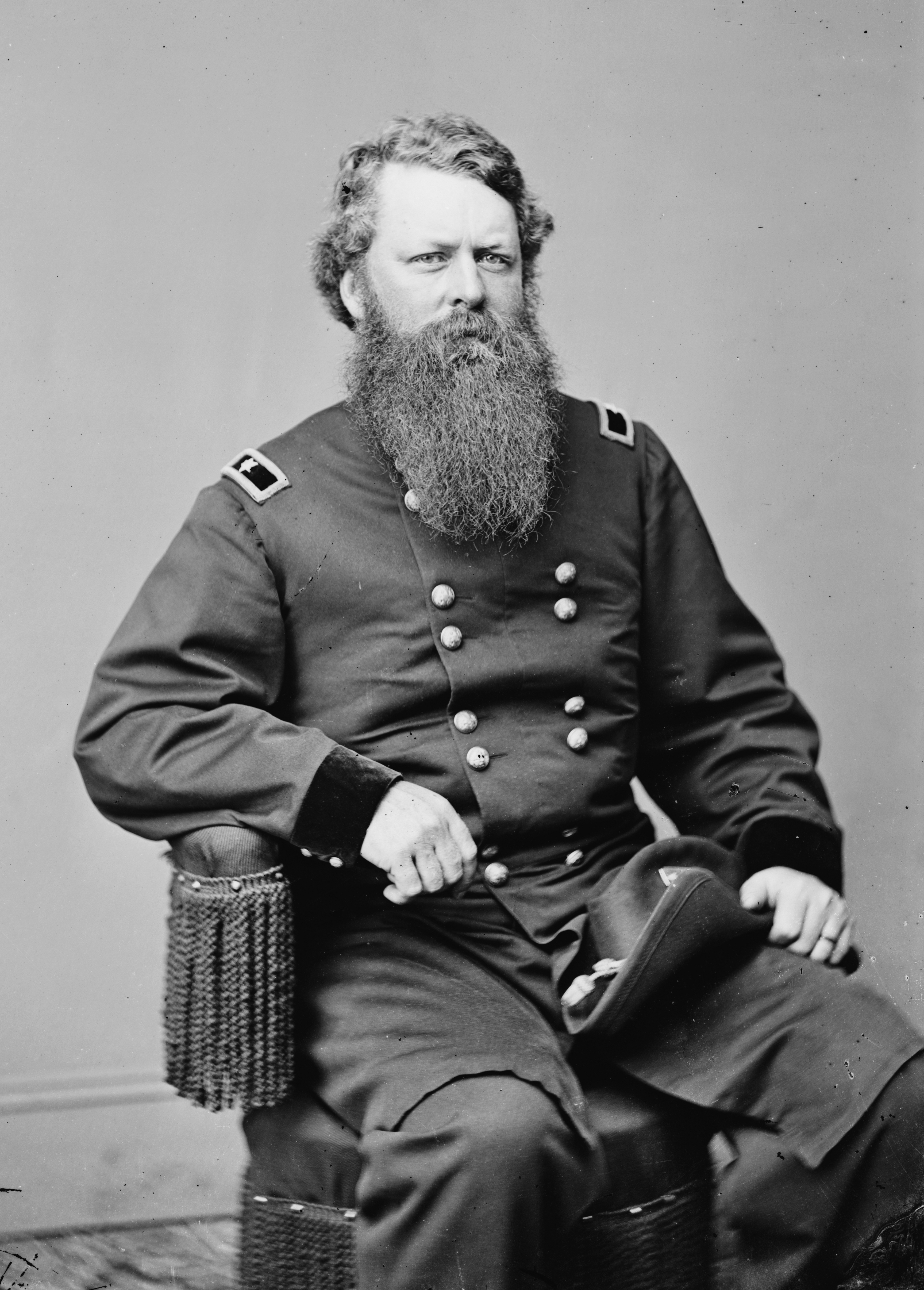 William W. Belknap, former Secretary of War and Army General.